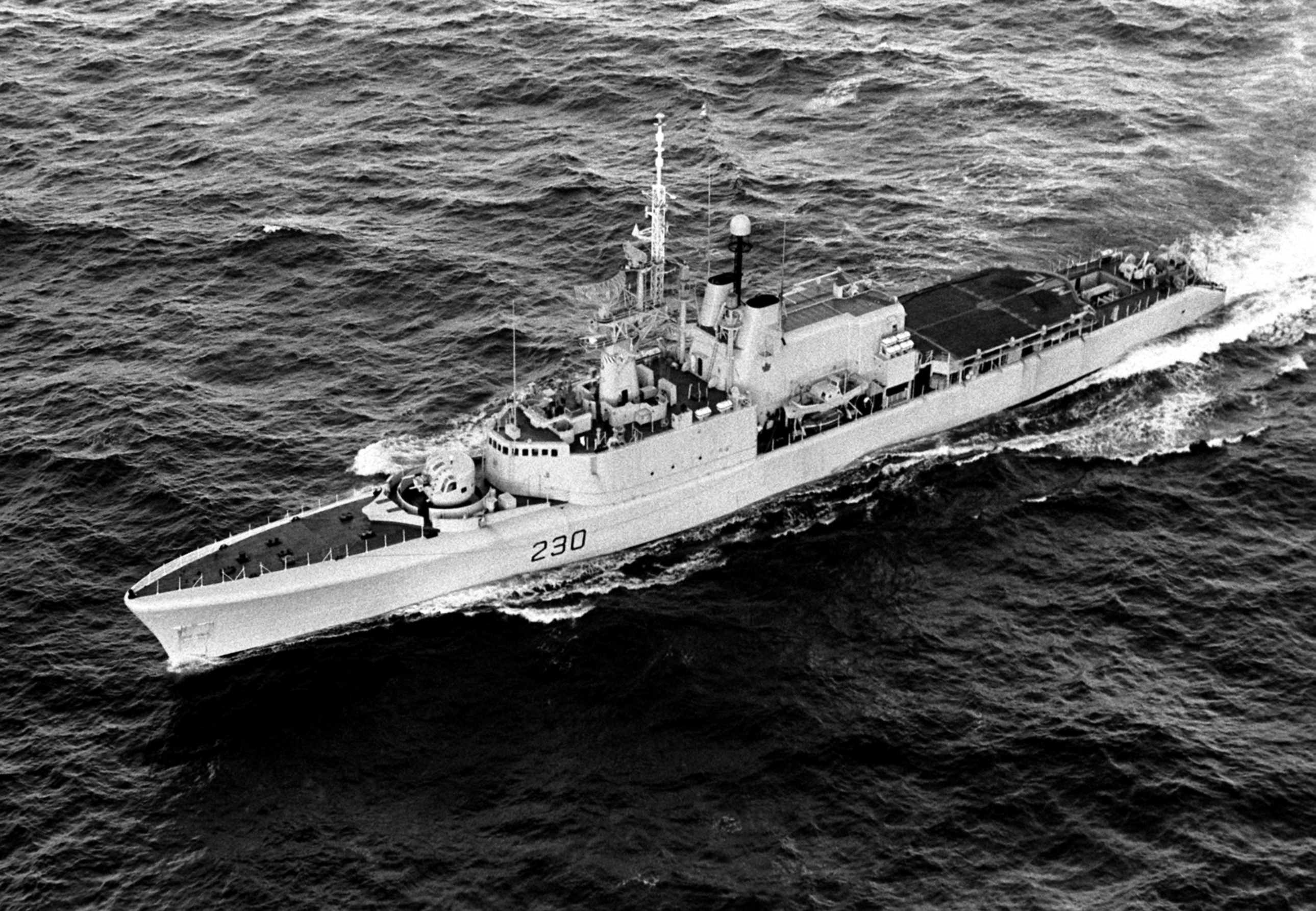 The Royal Canadian Navy frigate HMCS Margaree (DDH 230) underway during exercise FLEET EX 1-90.